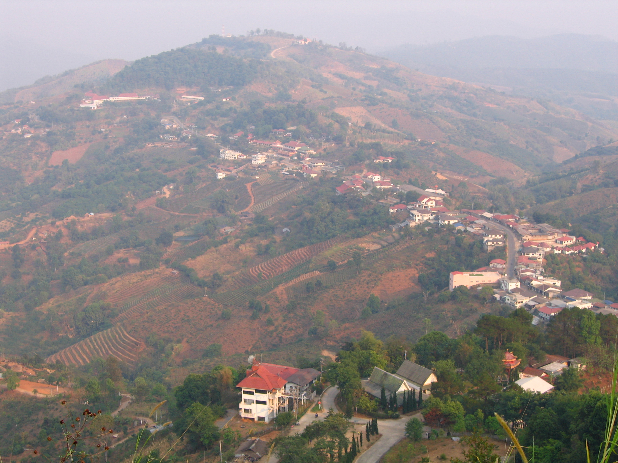 The town of Mae Salong in northern Thailand